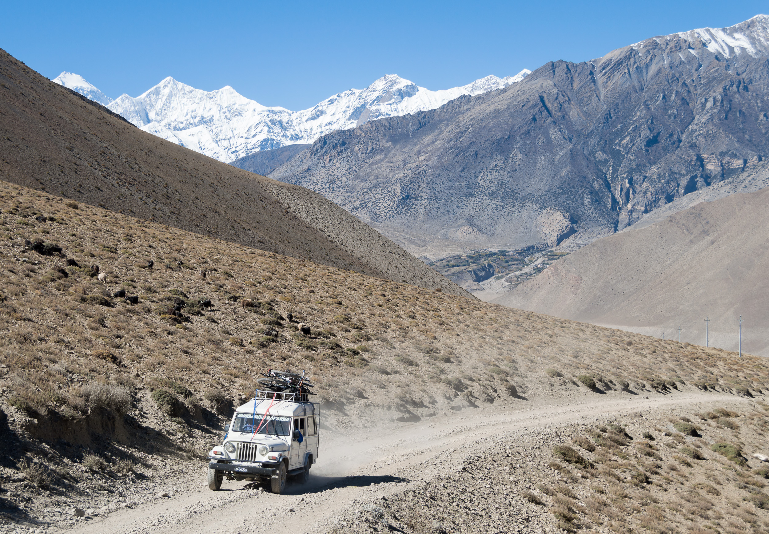 Car on road to Muktinath / Annapurna Circuit, Nepal